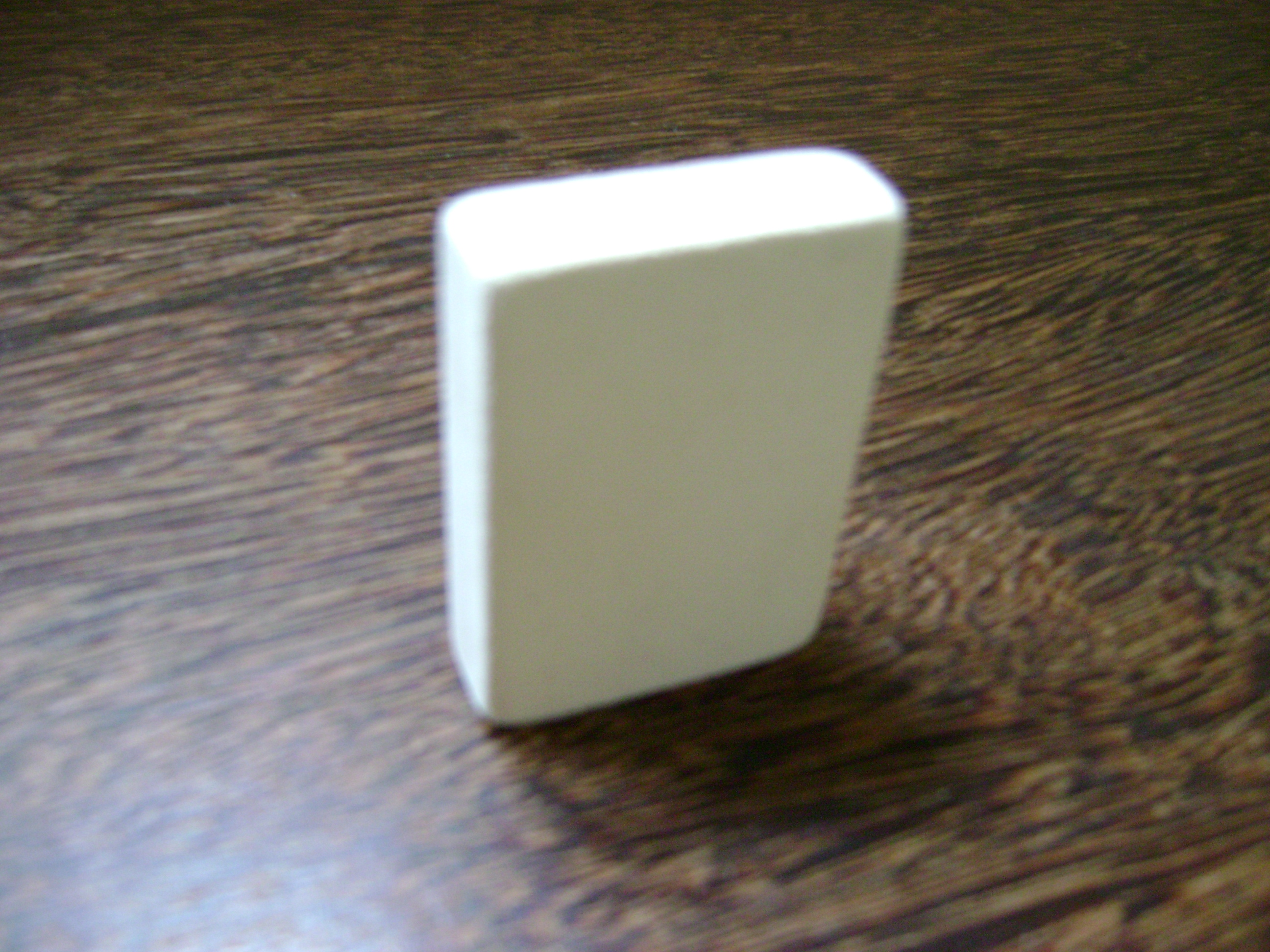 Eraser